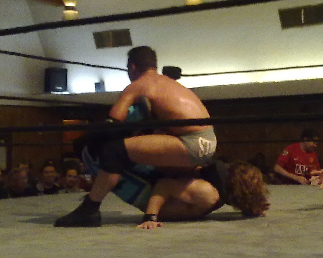 Professional wrestler Roderick Strong performing the Boston Crab submission hold at Pro Wrestling Guerrilla's Battle Of Los Angeles 2009 on November 20, 2009.